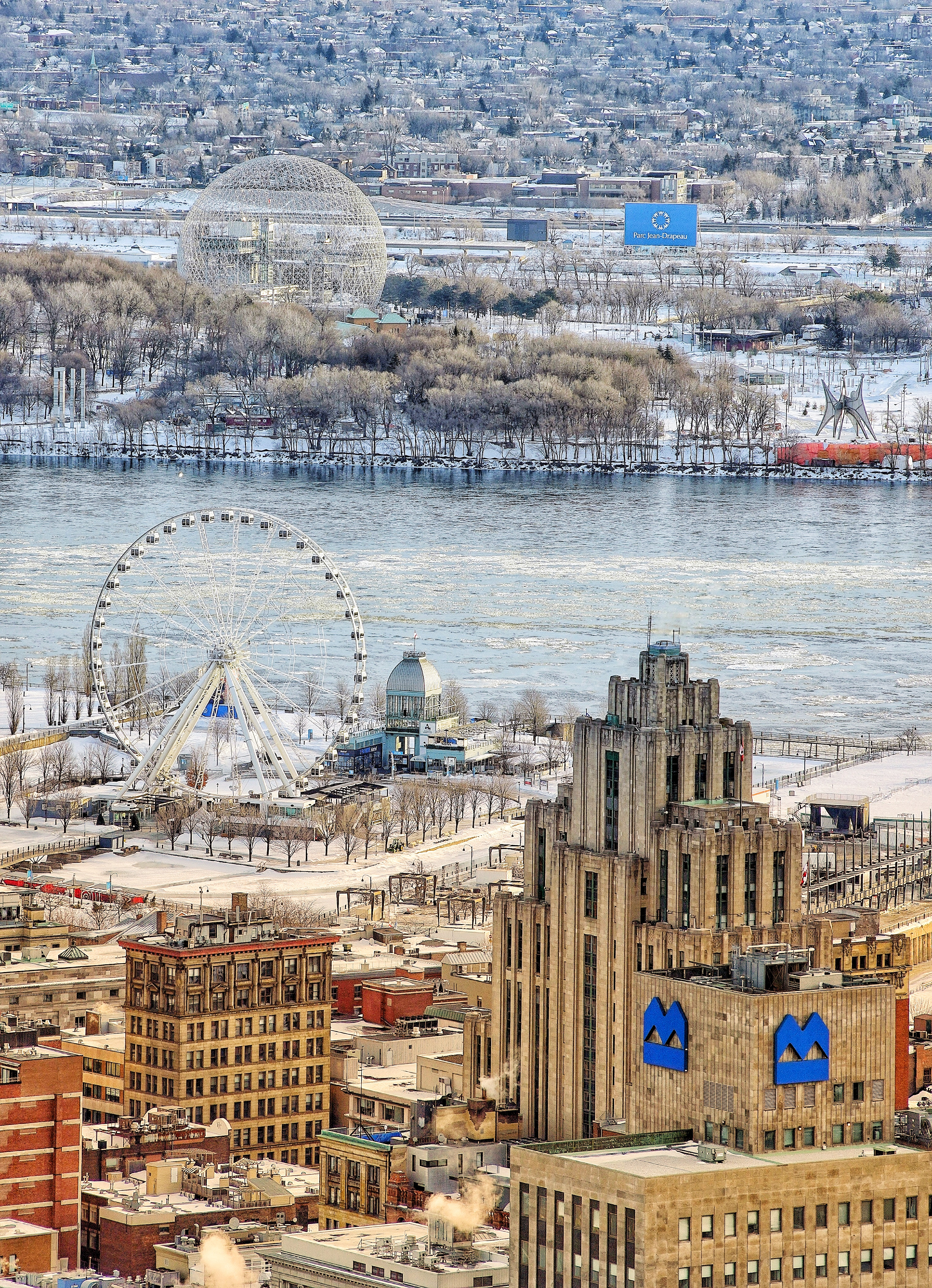 Montreal from the Place Ville-Marie observatory. Old Montreal overlooks the St. Lawrence River. In the foreground, from left to right, La Grande roue, the Aldred Building, and the Old Port. The observatory is located at 1 Place Ville Marie Montreal, Quebec H3B 2G2